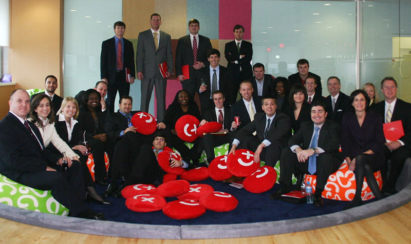 Terry College MBA's in China on an International Business excursion, spring 2010